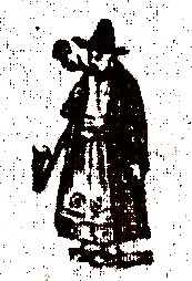 The prophet Jarfke smoking a pipe (1896)